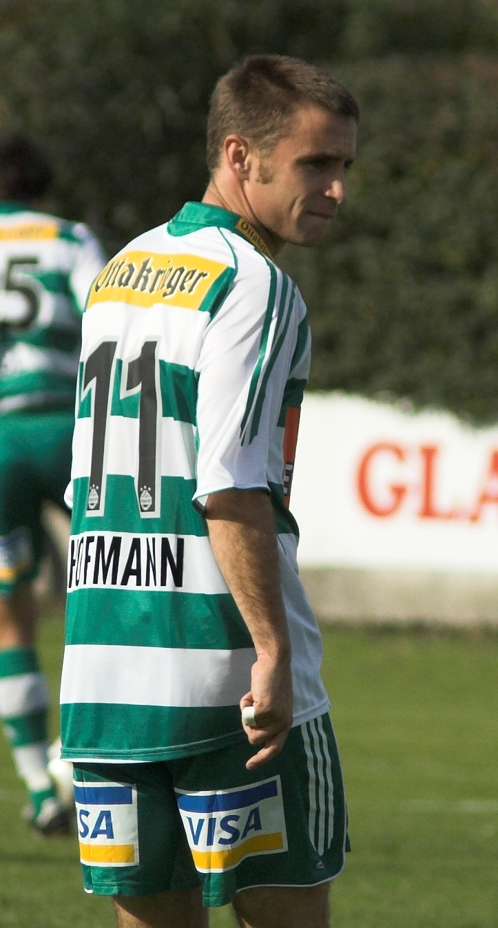 Steffen Hofmann, an austian football player